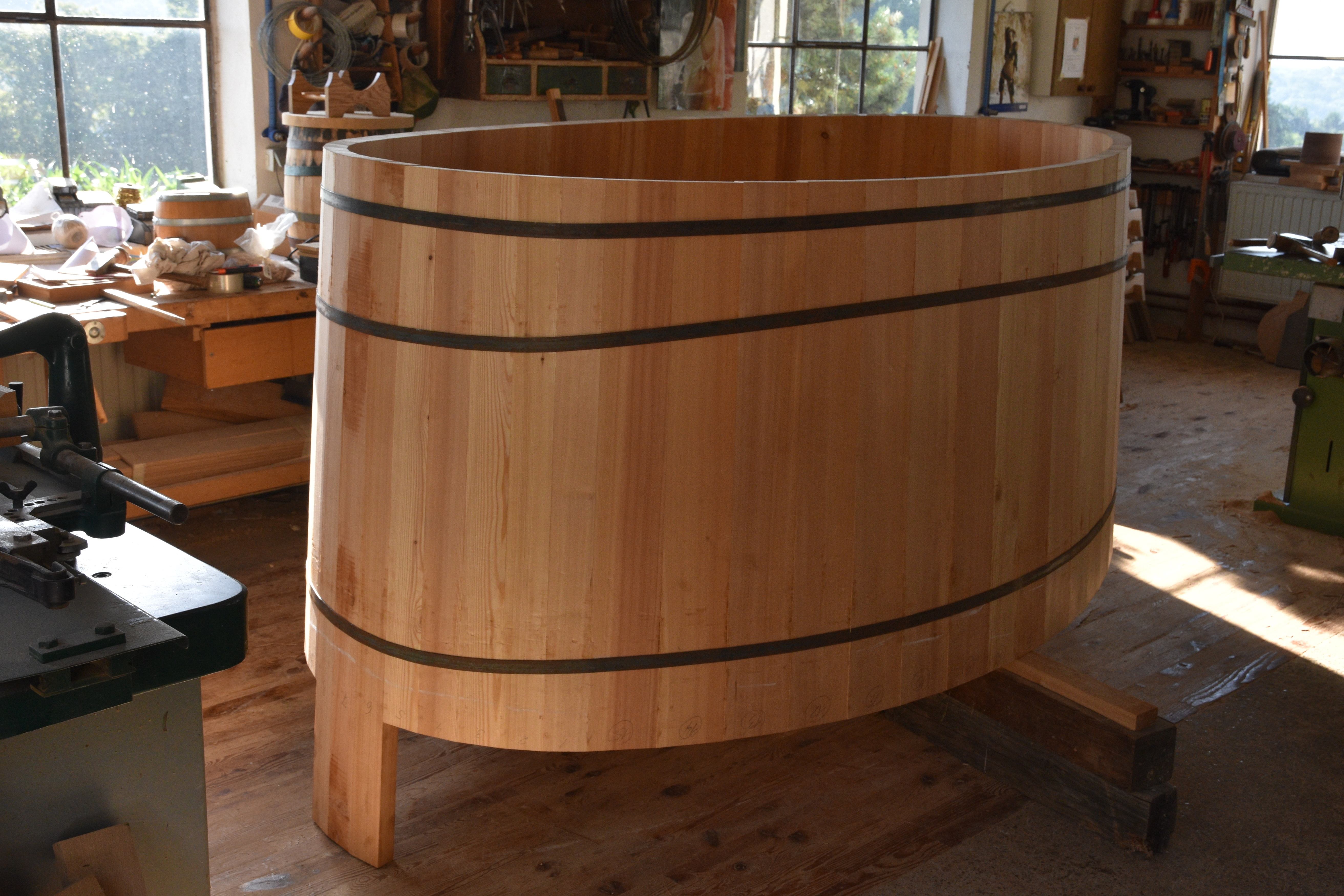 Staves (wood products) Cooperage in Austria